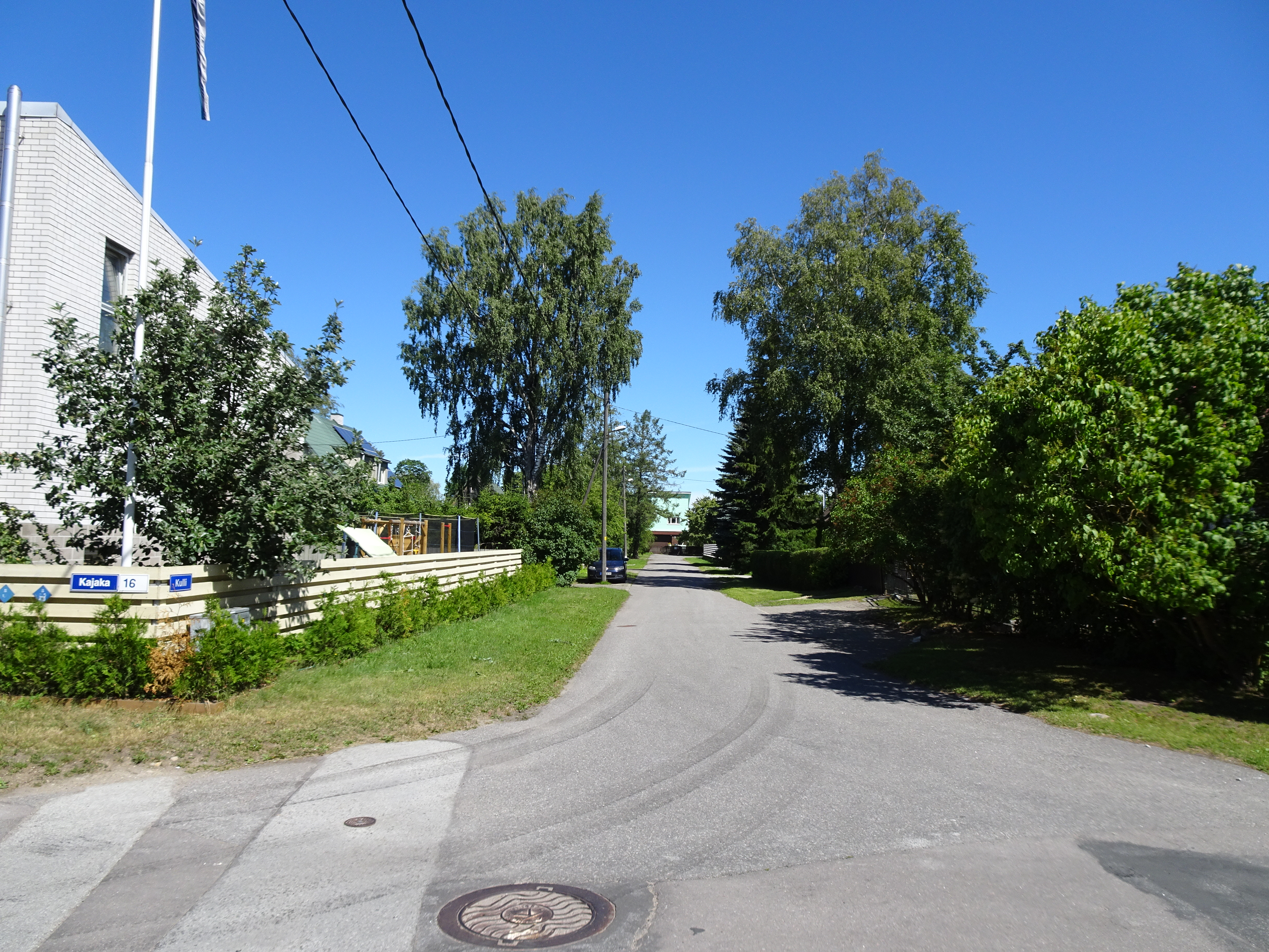 Kulli Street in Tallinn, Estonia